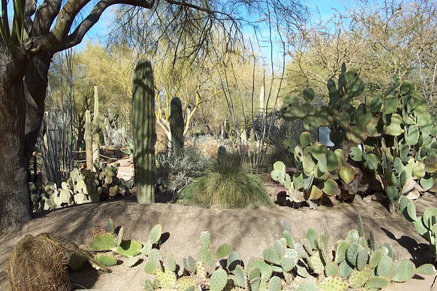 The Ethel M Botanical Cactus Gardens.